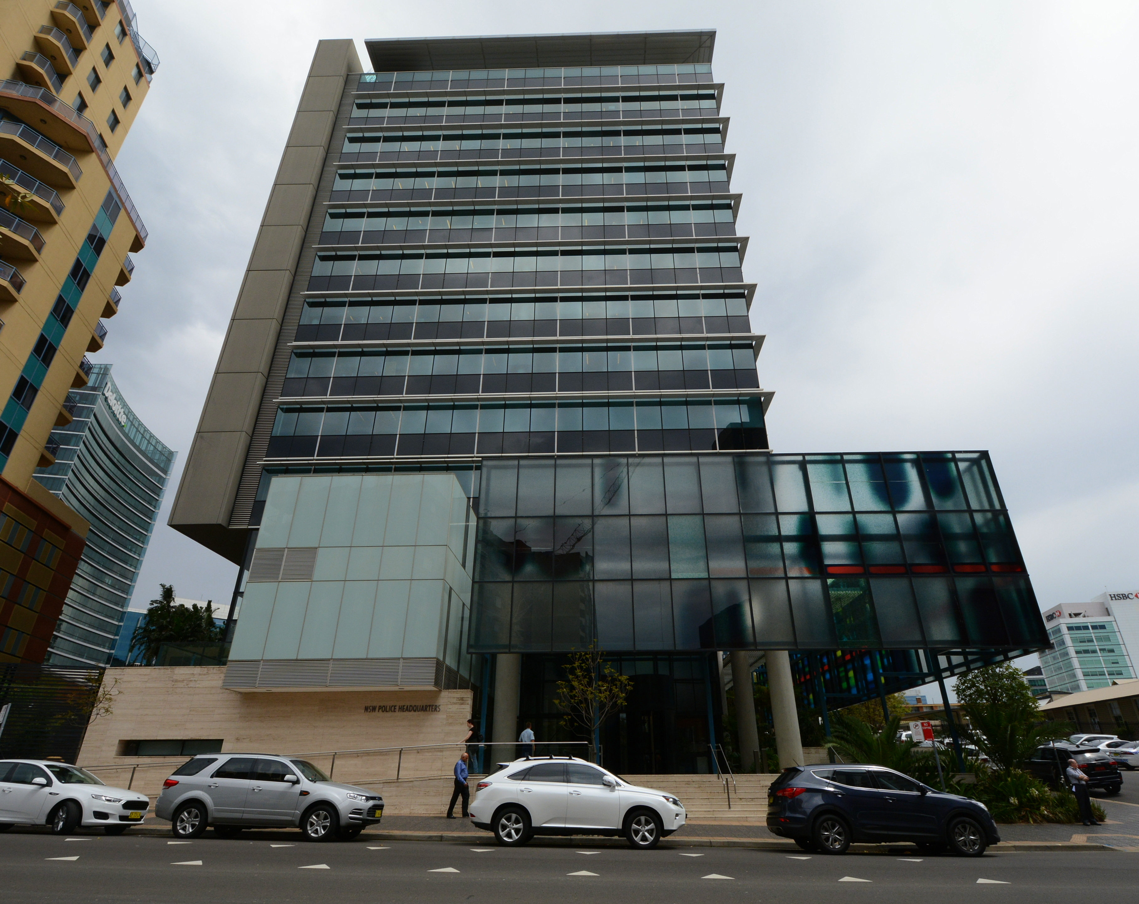 NSW Police Headquarters, Parramatta, Sydney